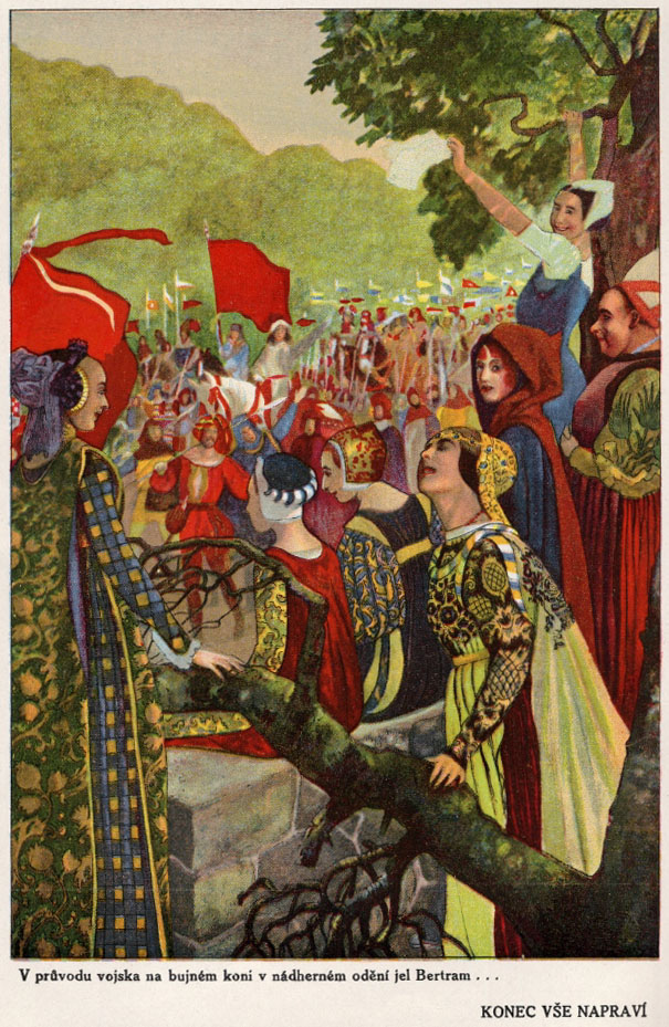 Illustration by Czech painter Artuš Scheiner for Shakespeare’s All’s Well That Ends Well Česky: Ilustrace Artuše Scheinera k Shakespearově hře Konec vše napraví